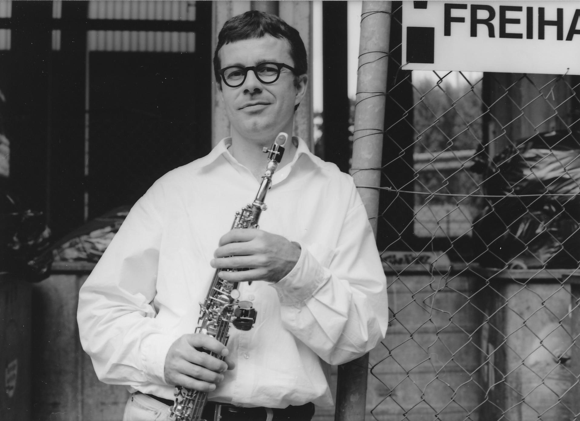 Swiss Jazz saxofonist Christoph Gallio- Photo sent by Gallio himself to Horatius to be loaded.